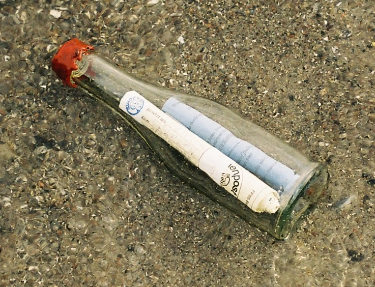 message in a bottle